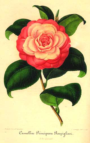 "Camellia Principessa Rospigliosi," from Ambroise Alexandre Verschaffelt, 1825-1886, ed., Nouvelle iconographie des camellias: contenant les figures et la description des plus rares, des plus nouvelles et des plus belles variétés de ce genre. Vol. 4 (1853). 13 vols.[1]